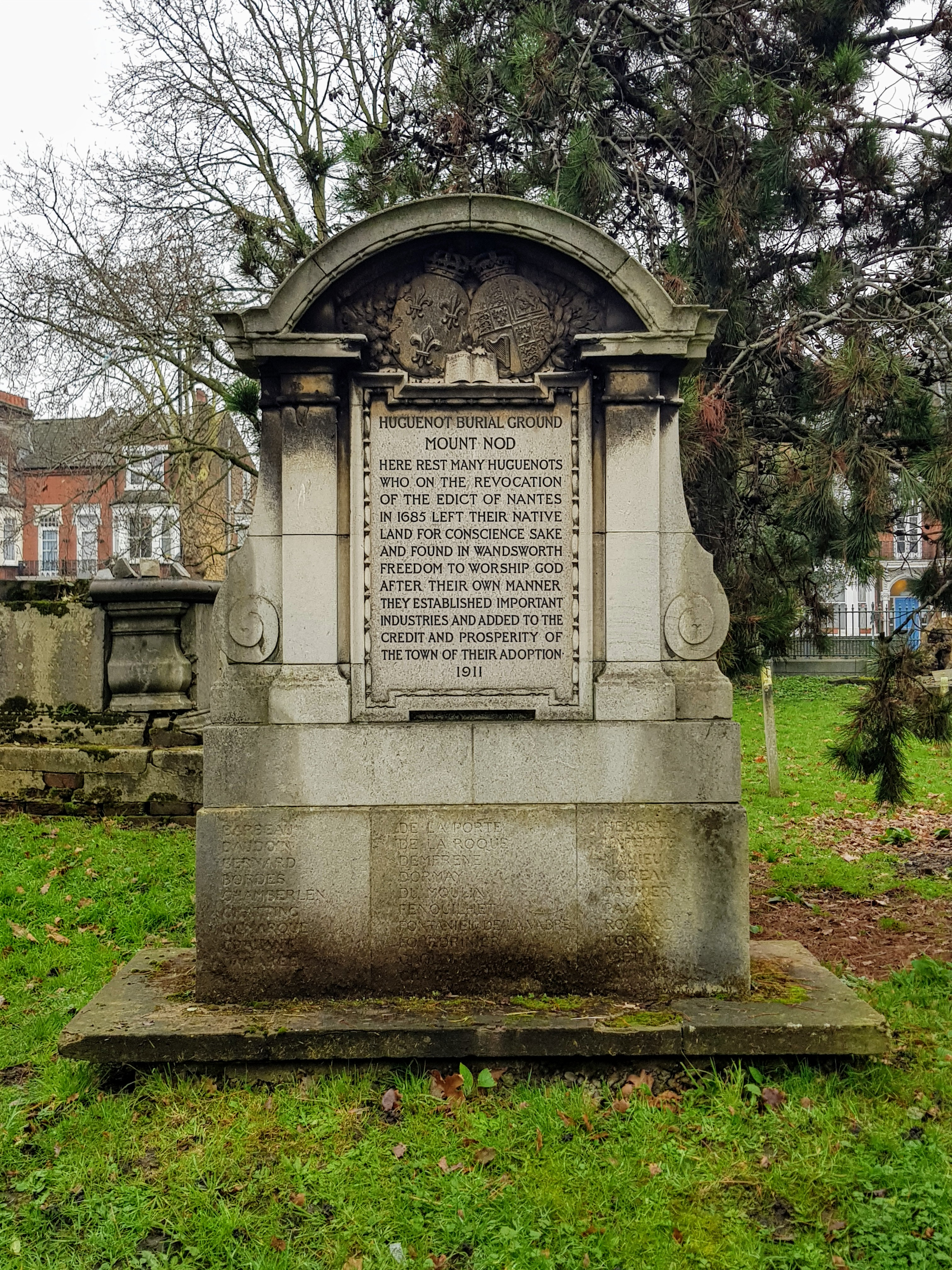 Memorial erected in 1911 at the former Huguenot Burial Ground, Mount Nod, Wandsworth, London